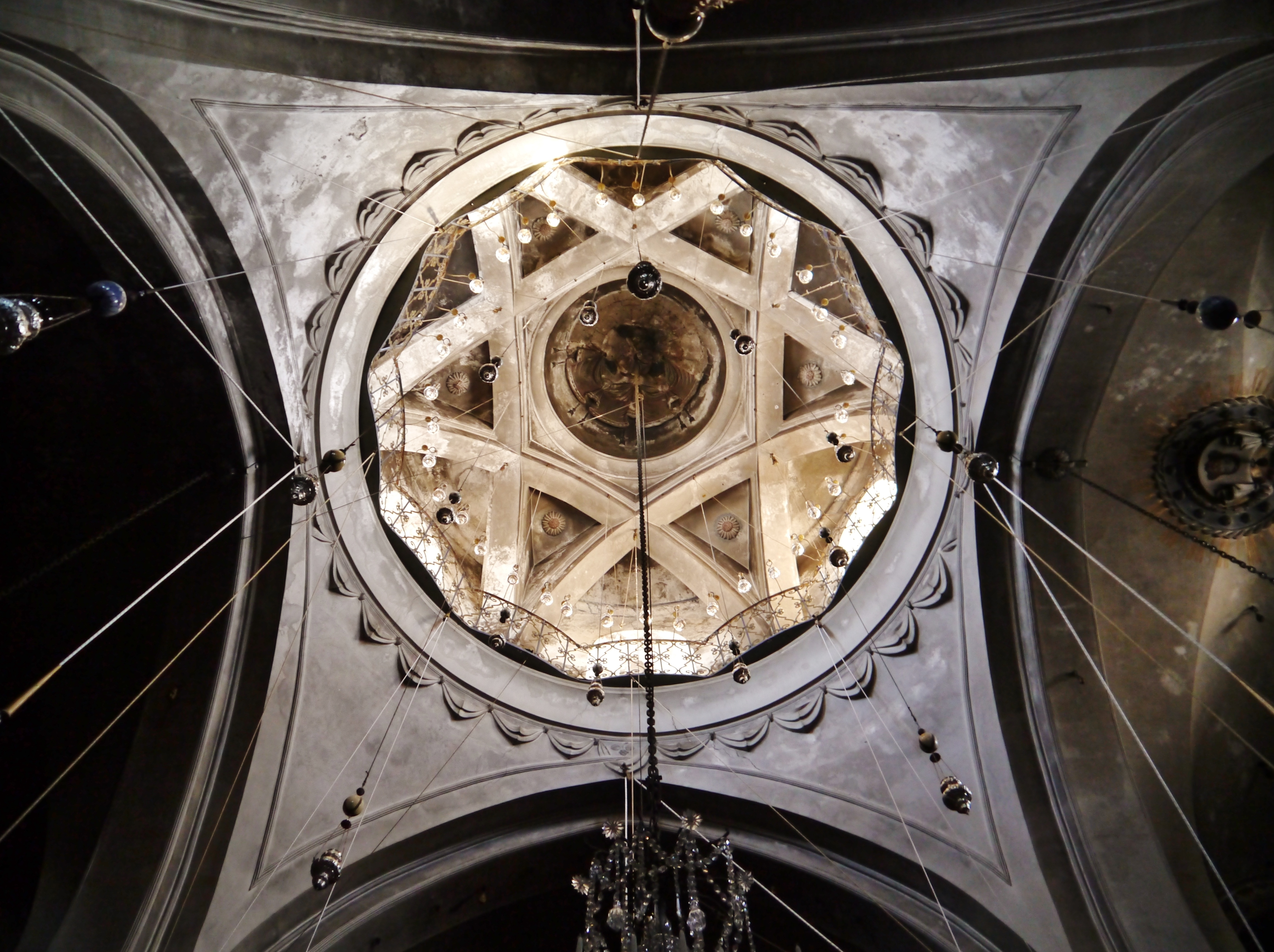 Dome of the Armenian Cathedral St. James, Jerusalem, Israel